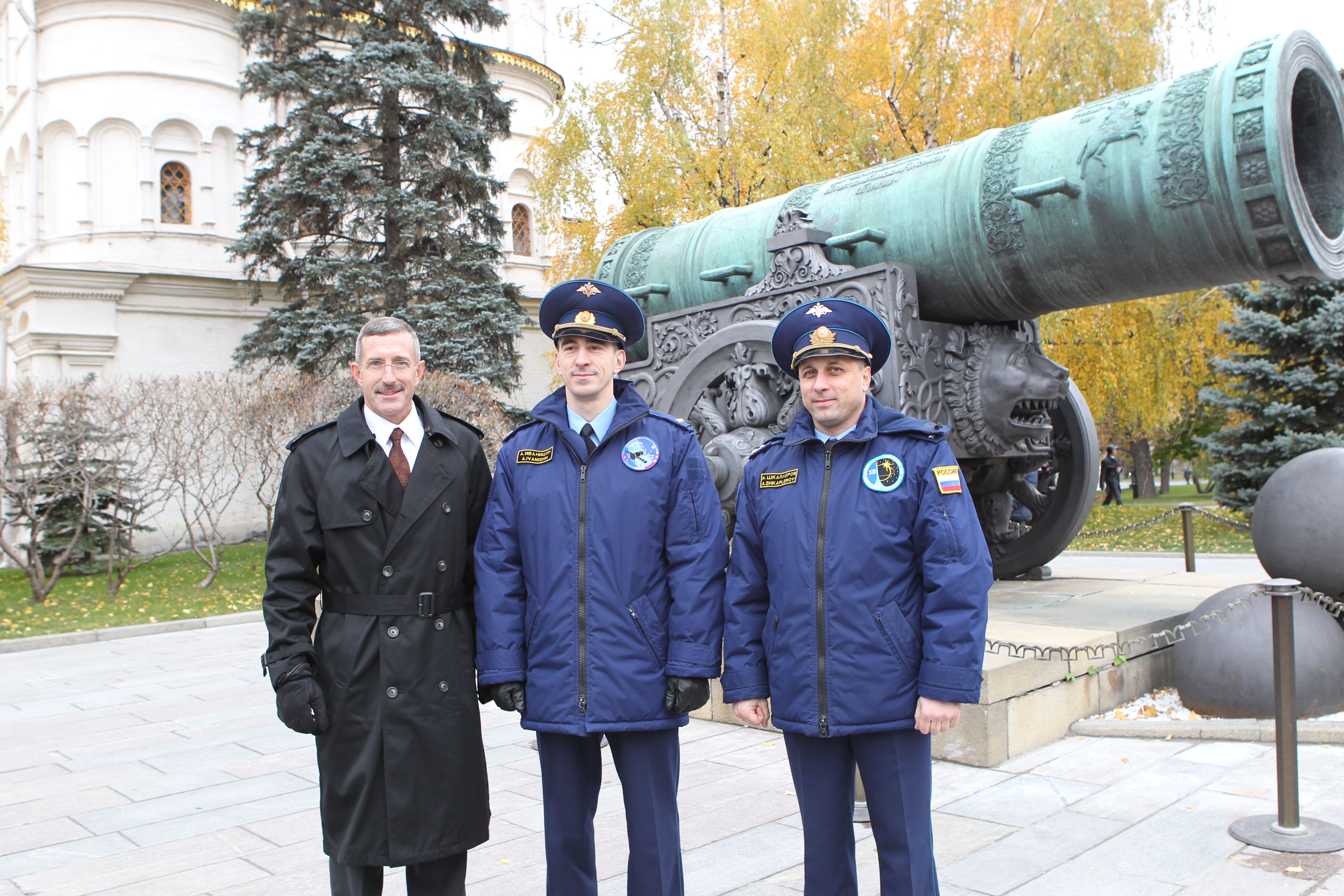 The next residents of the International Space Station pose for pictures in front of the Tsar Cannon at the Kremlin in Moscow Oct. 24, 2011 after completing the traditional laying of flowers at the Kremlin Wall off of Red Square as part of their prelaunch activities. From left to right are NASA astronaut Dan Burbank, Expedition 30 commander; and Russian cosmonauts Anatoly Ivanishin, flight engineer, and Anton Shkaplerov, Soyuz commander. The three will launch on Nov. 14 in their Soyuz TMA-22 spacecraft from the Baikonur Cosmodrome in Kazakhstan.